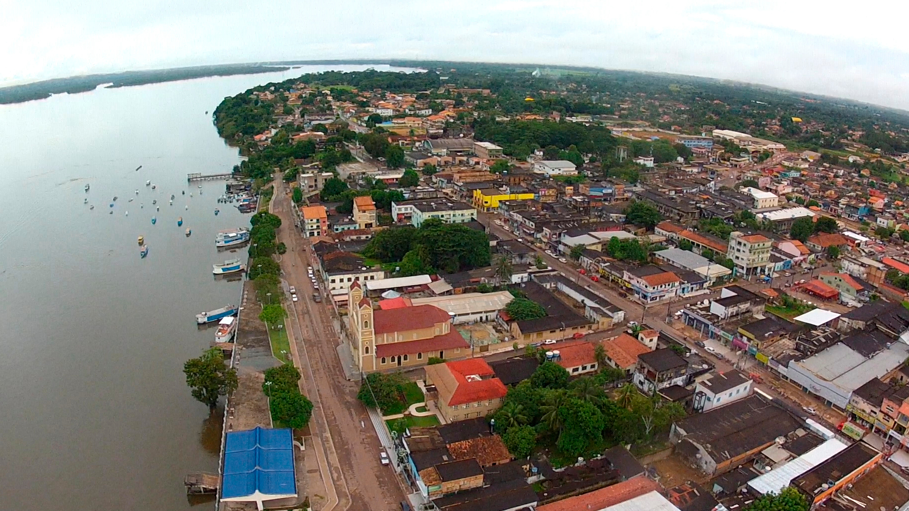 Aerial View of Itaituba, Brazil, Courtesy of Arlyson Souza